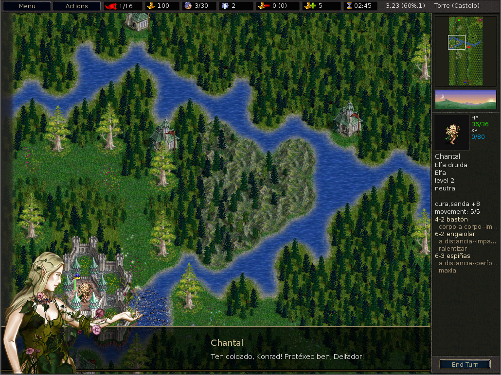 Screenshot of Battle for Wesnoth : Heir to the Trone campaign with Galician locale